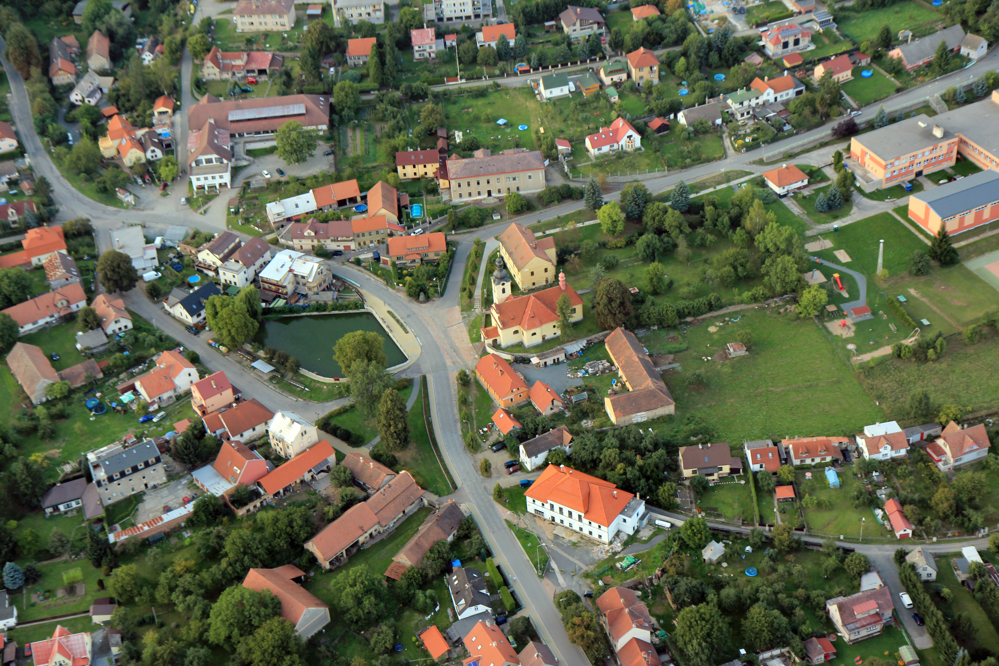 Aerial view of Chocerady, Czech Republic